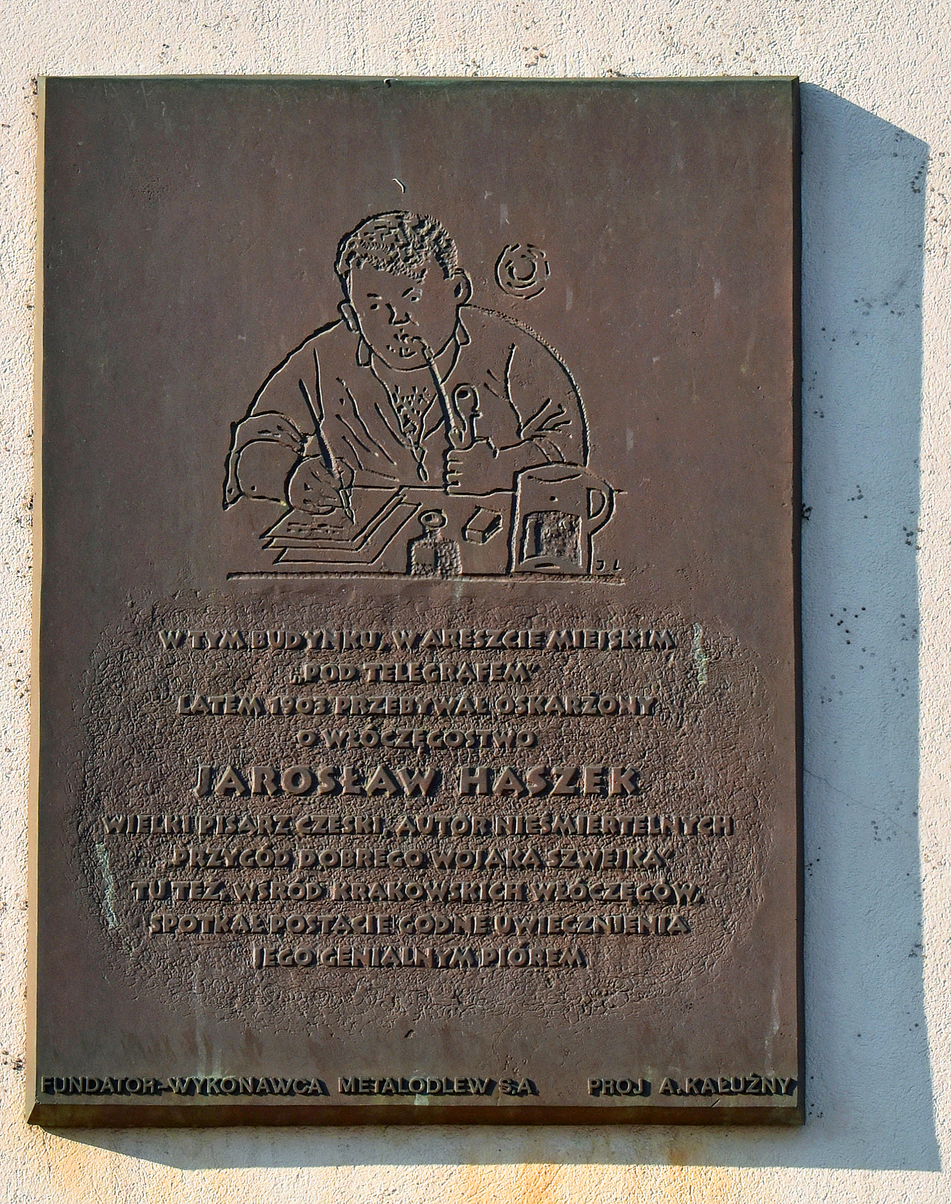 Gorkow Palace, Jaroslav Hasek (Czech writer, journalist) commemorative plaque (2004 design. by Antoni Kałużny), 24 Kanonicza street (4 Podzamcze street), Old Town, Krakow, Poland